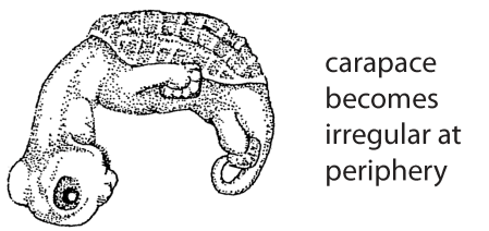 Standard Event System character depiction